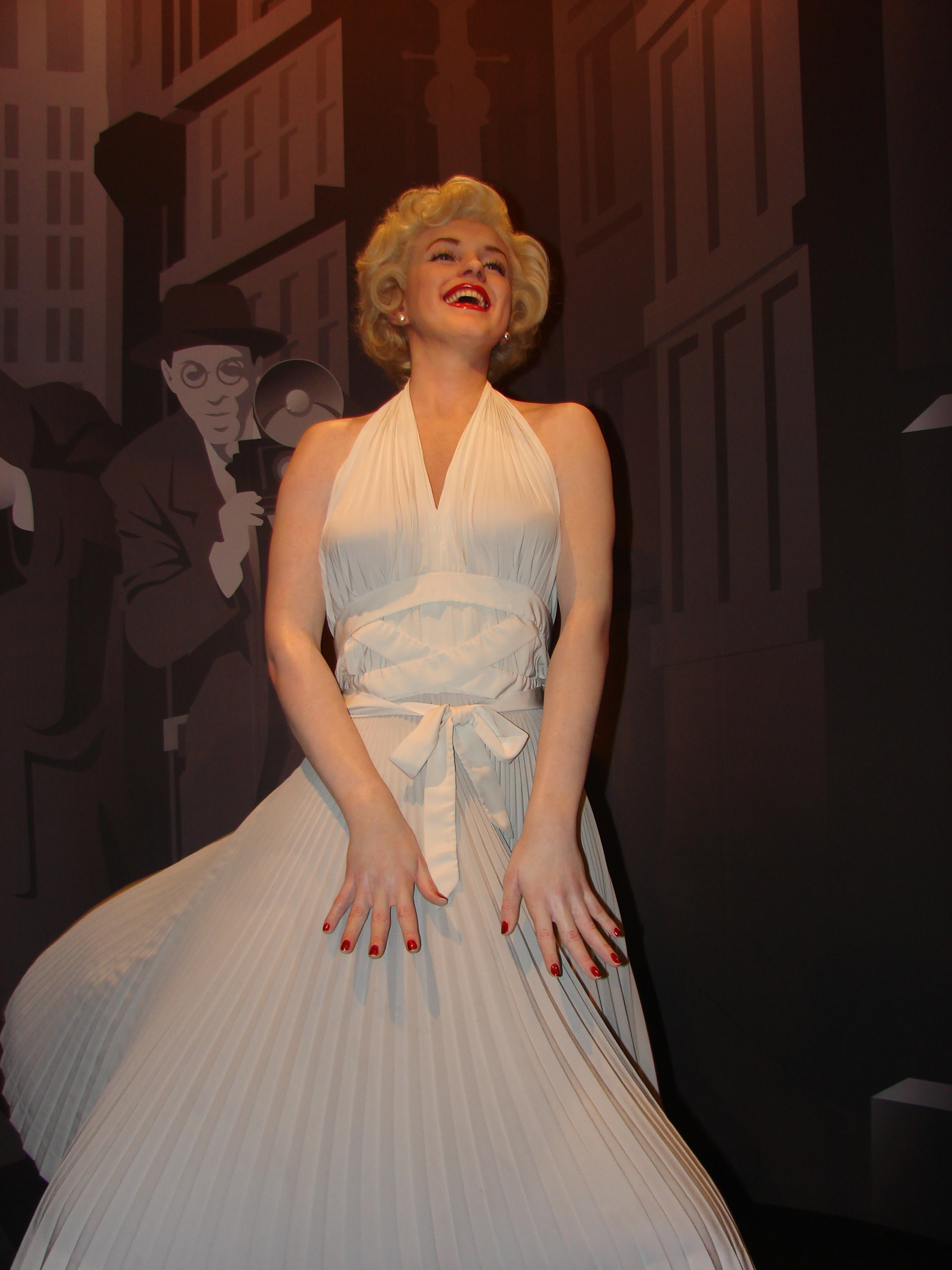 Marilyn Monroe Wax Statue in Madame Tussauds London